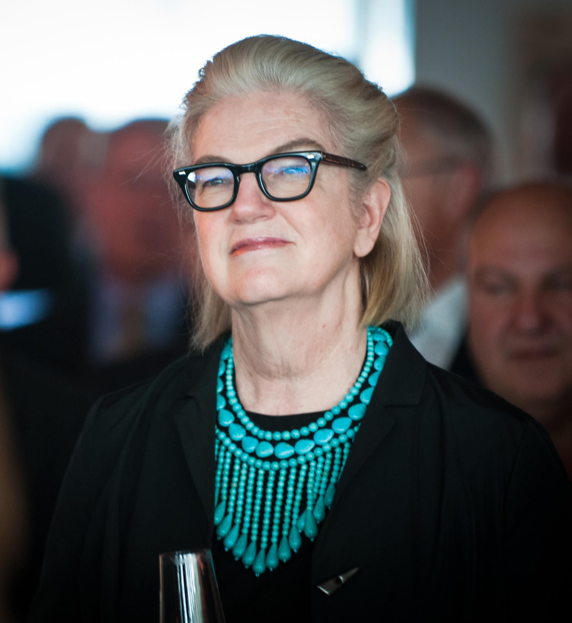 Marjorie Scardino at Financial Times 125th Anniversary Party, London, in June 2013